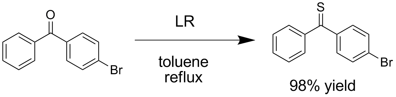 Reaction scheme of the Lawesson's reagent.